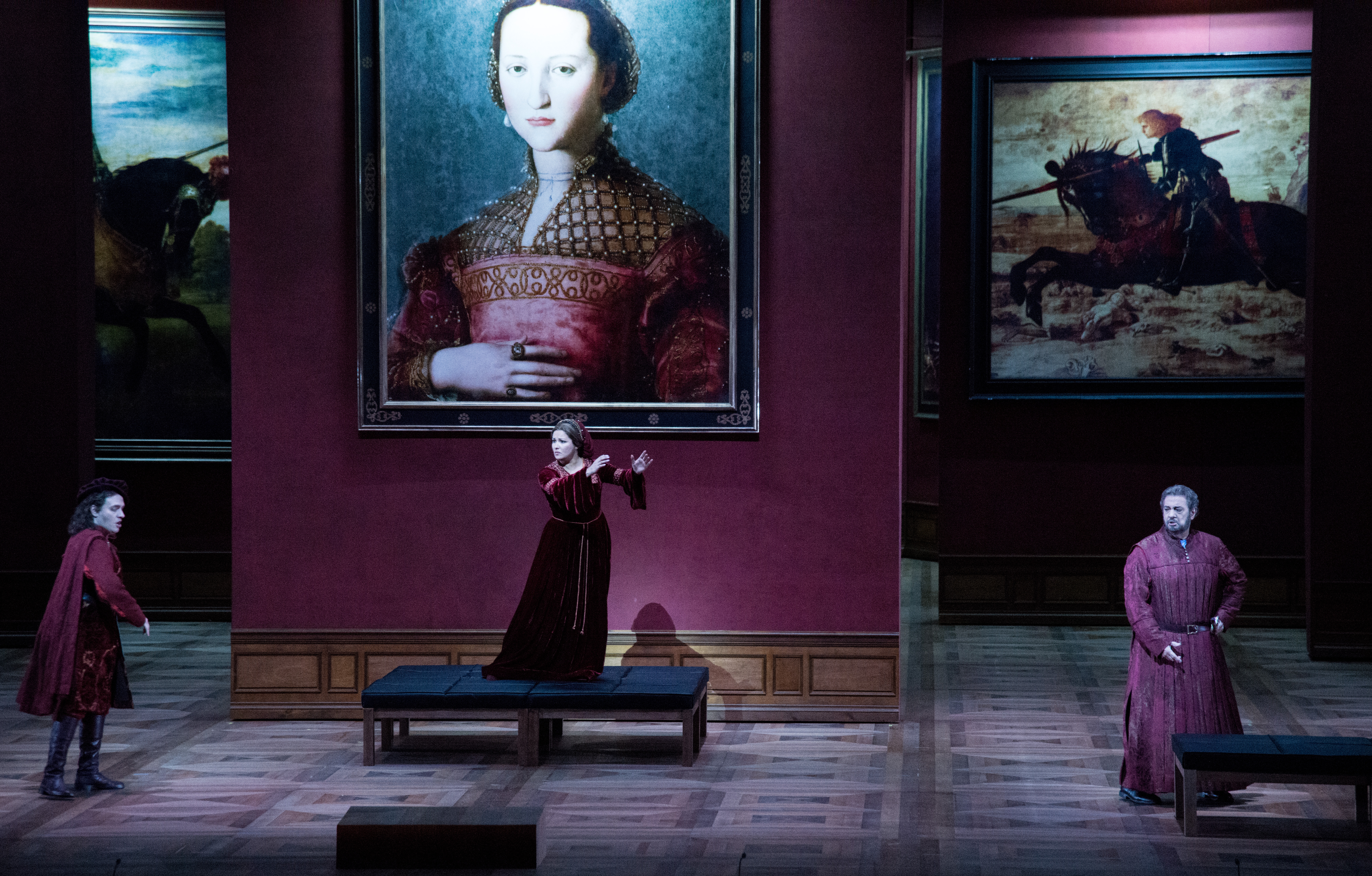 Il trovatore, with Francesco Meli, Anna Netrebko, Palcido Domingo, Salzburg Festival 2014